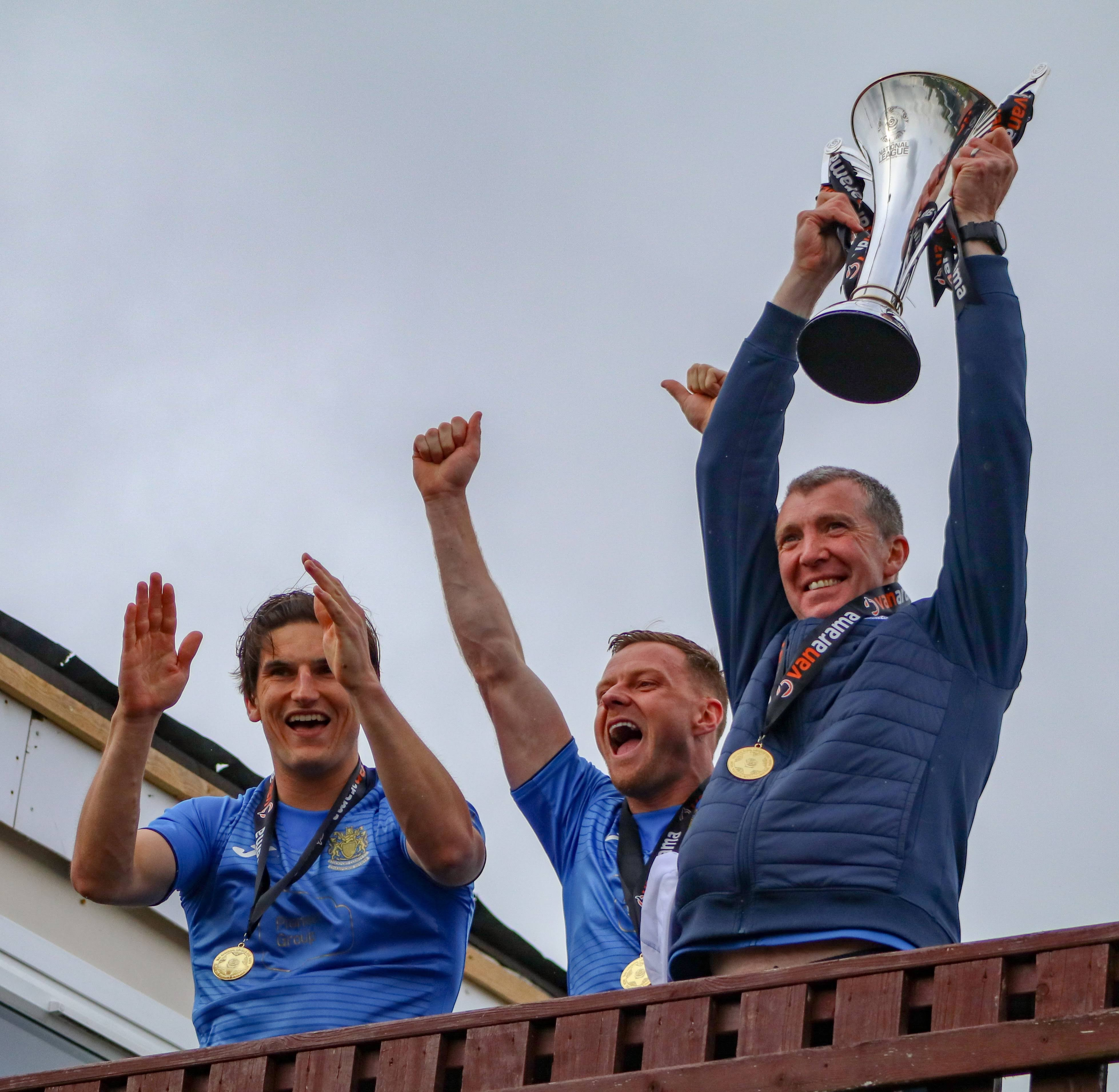 County manager Jim Gannon lifting the National League North trophy in 2019